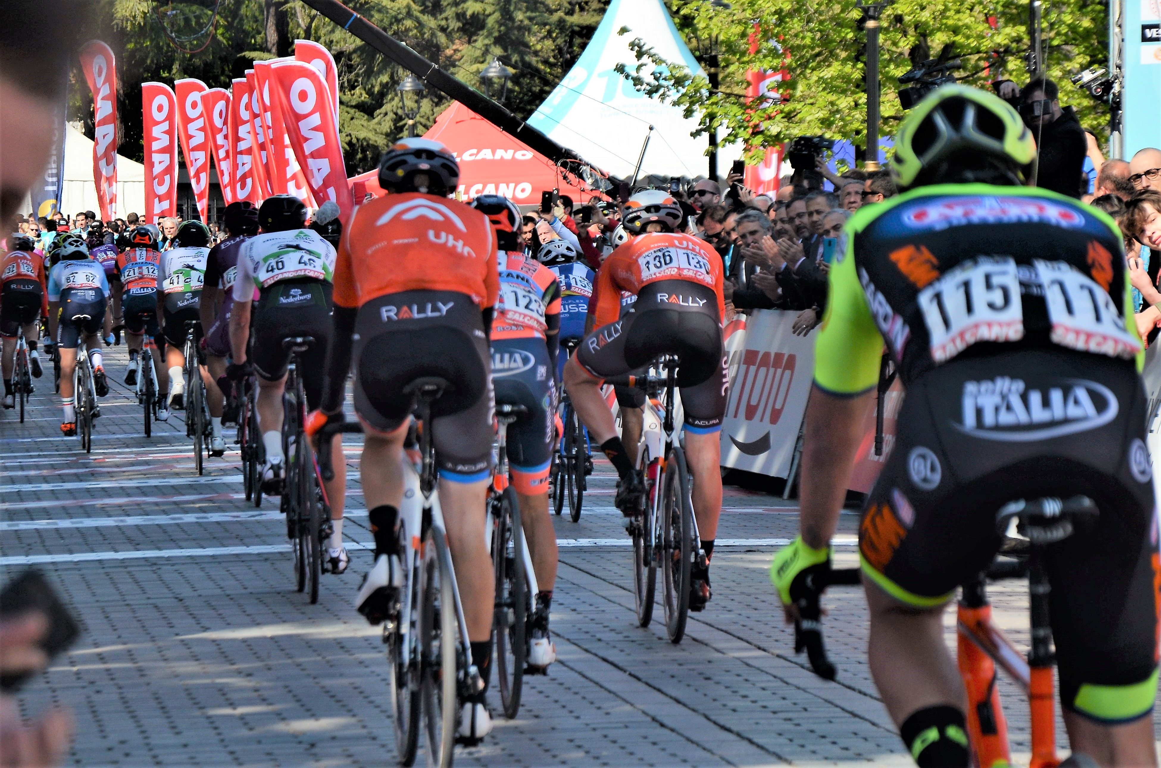 Finish position at the 55th Presidential Cycling Tour of Turkey in 2019..